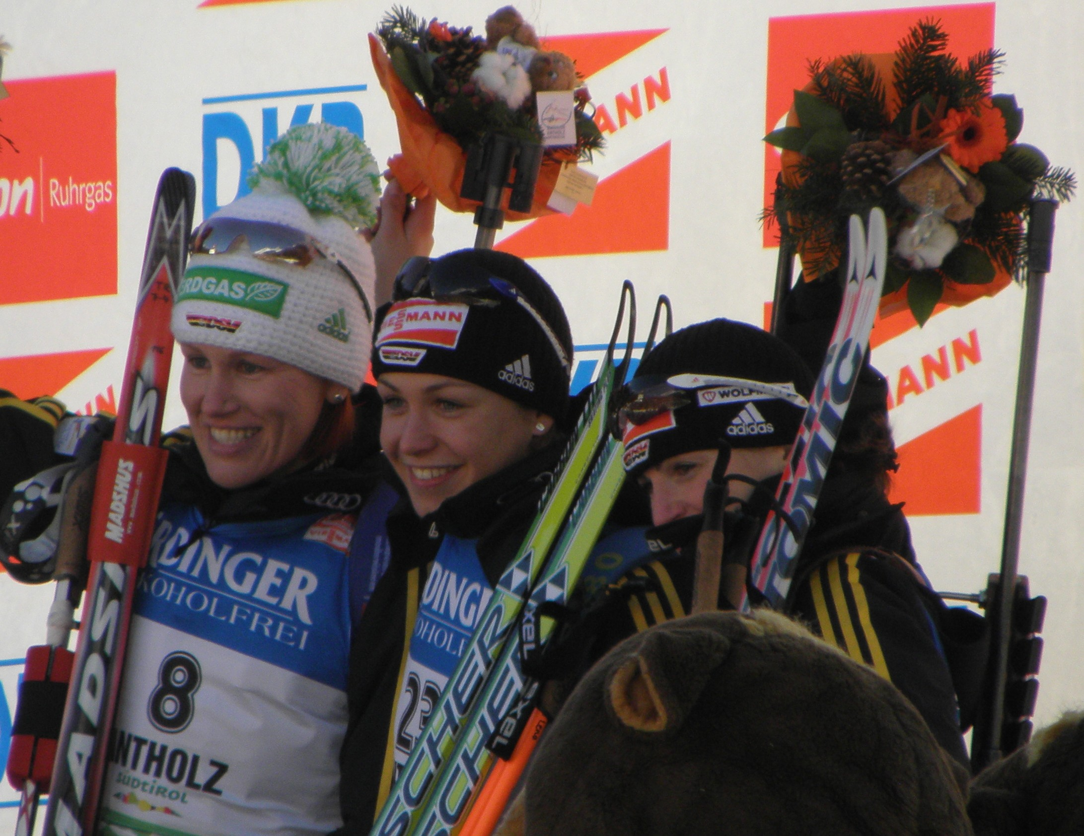 Podium of the Women individual 15k at the World Cup Biathlon Antholz 2010 left to right: Kati Wilhelm, Magdalena Neuner and Andrea Henkel